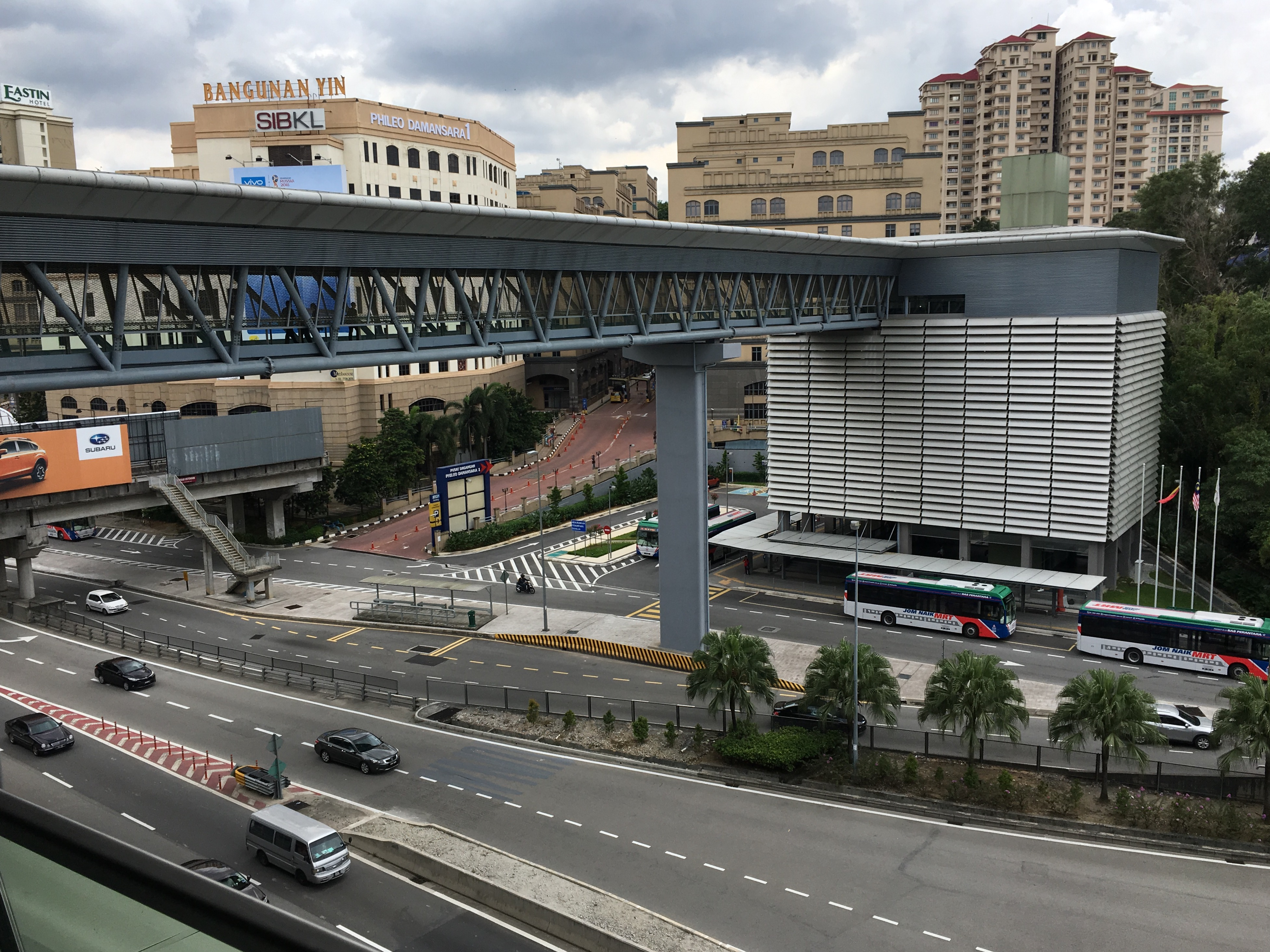 Entrance A which is linked to the Phileo Damansara MRT Station via a pedestrian bridge over the Sprint Expressway.